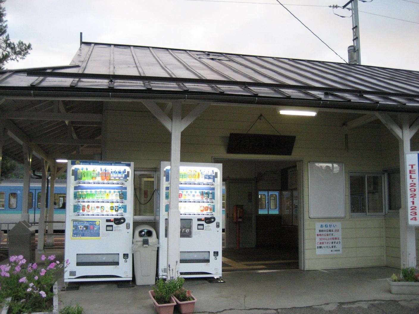 JR East Inariyama Station